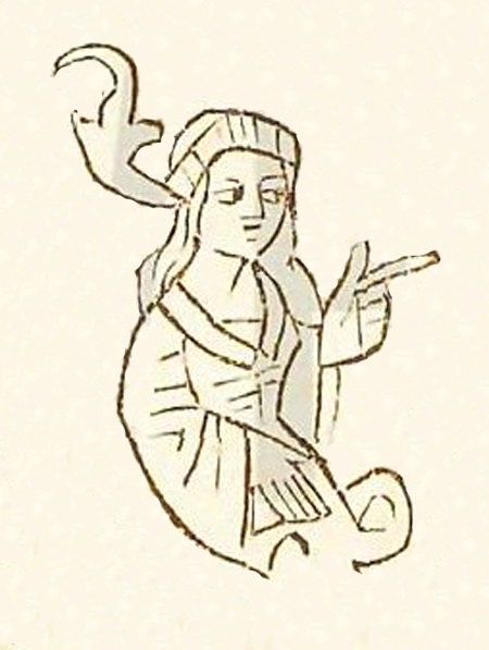 Margaret of Habsburg (1346), III. consort of John Henry, Margrave of Moravia